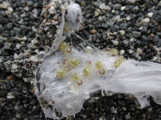 Habronattus amicus spiderlings